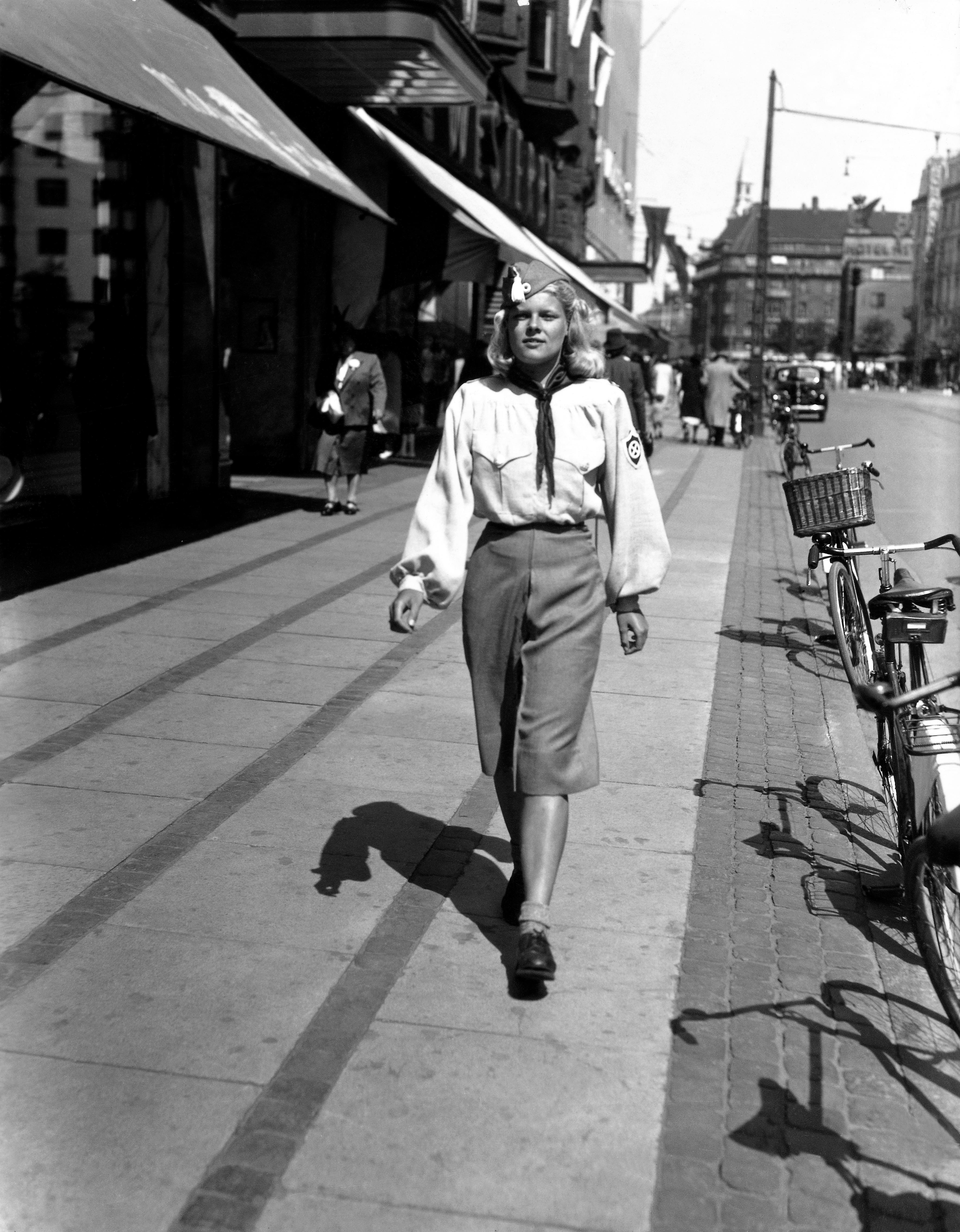 NSU - girl in Vesterbrogade in Copenhagen in June 1941. NSU ( National - Socialist Youth ) was DNSAP 's youth organization . The picture was taken for DNSAP 's newspaper Fatherland d . June 19, 1941Dansk: NSU-pige på Vesterbrogade i København i juni 1941. NSU (National-Socialistisk Ungdom) var DNSAP's ungdomsorganisation. Billedet blev bragt i DNSAP's avis Fædrelandet d. 19. juni 1941